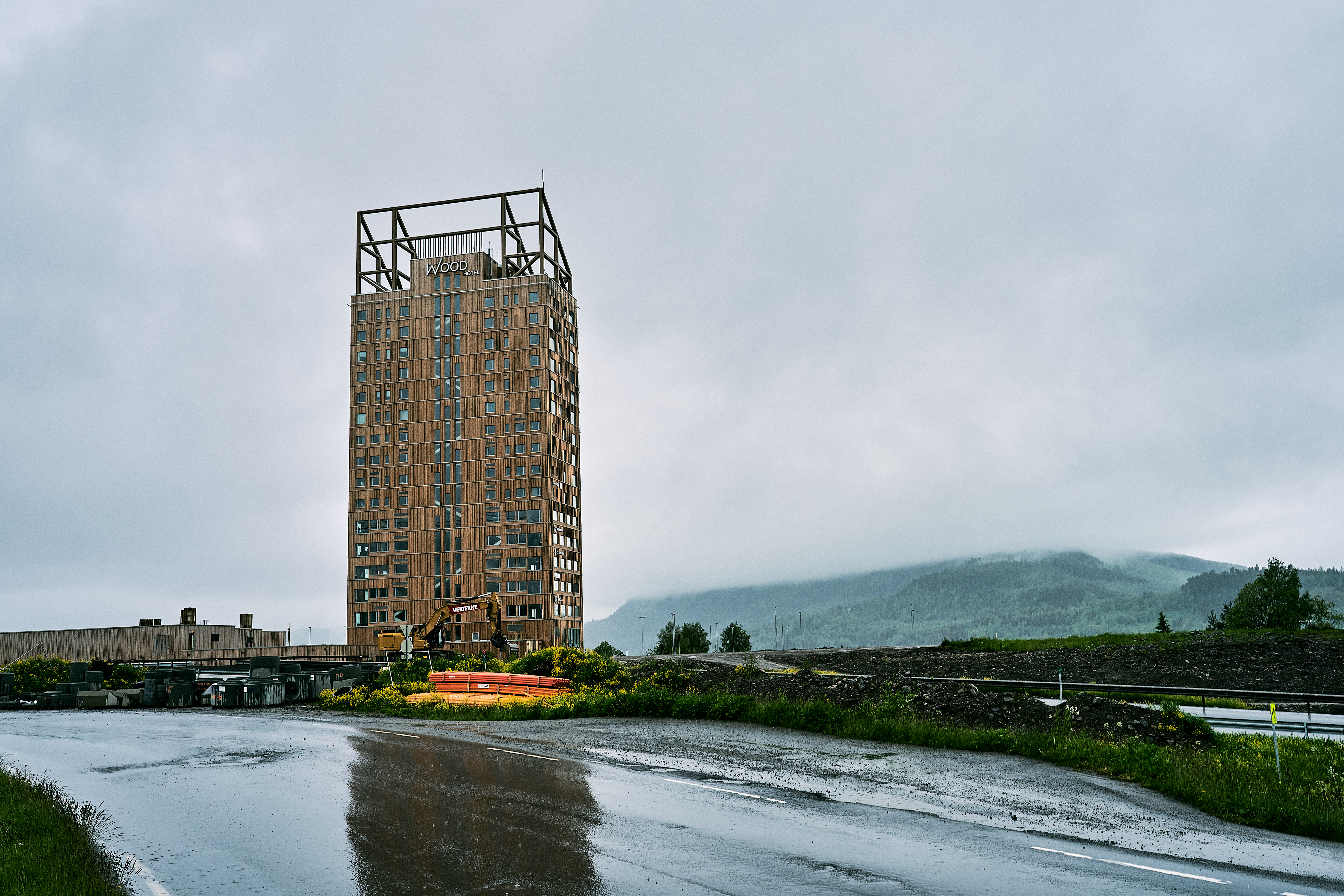 Lake Mjøsa Tower in Brumunddal.